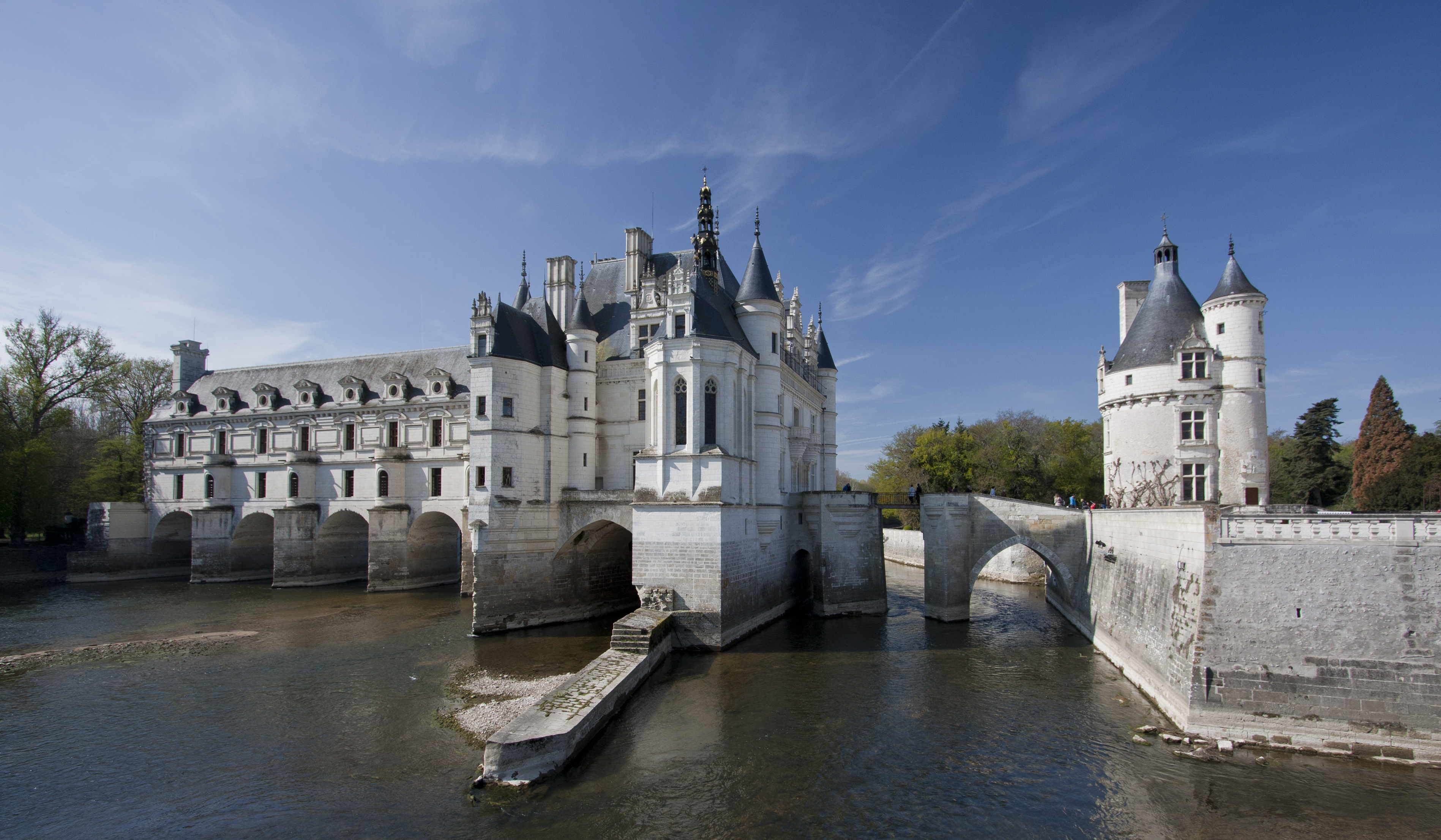 Chenonceaux Castle, Loire France, on the Cher river.